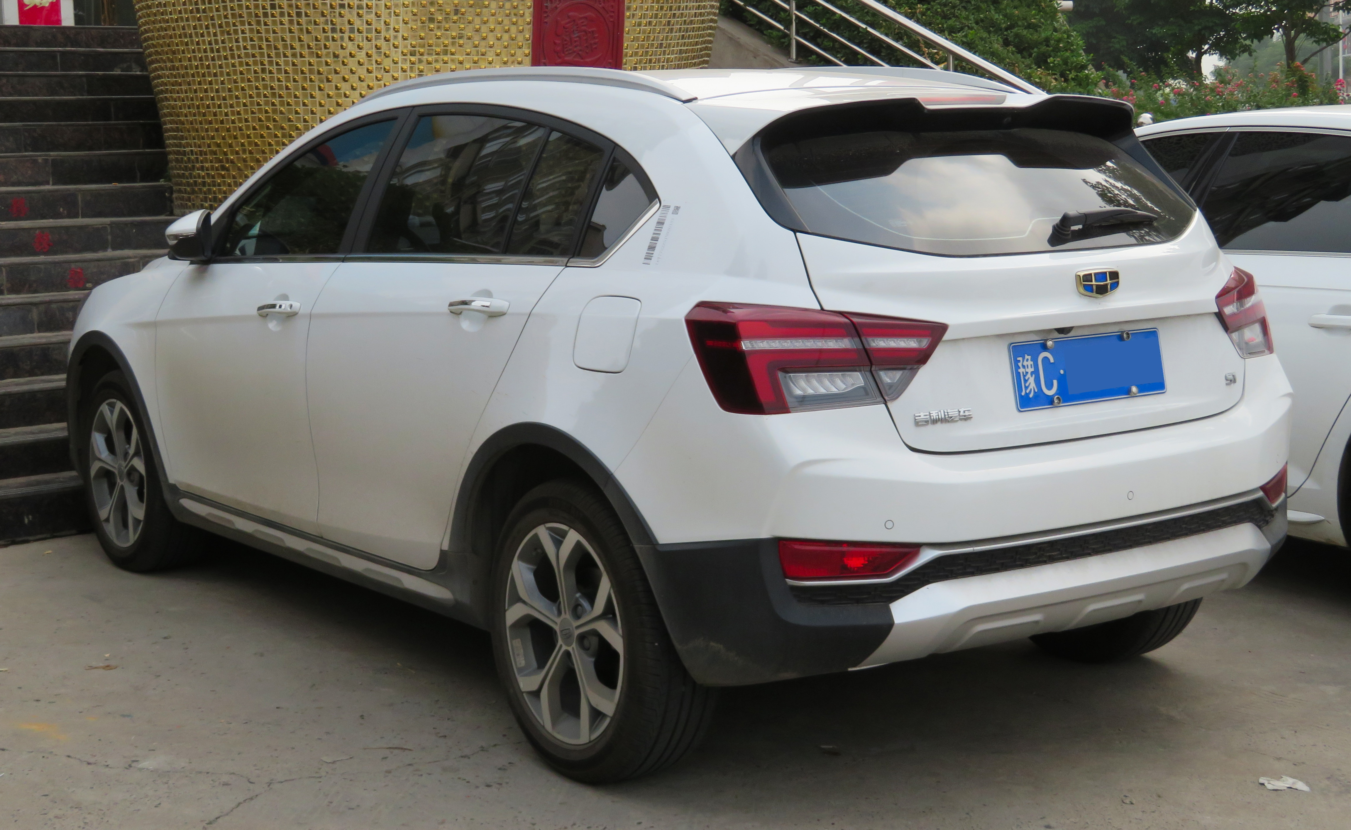 A 2017-present Geely Yuanjing (Vision) S1 photographed in Jianxi District, Luoyang, Henan province, China